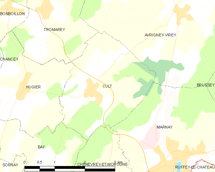 Map of French municipality